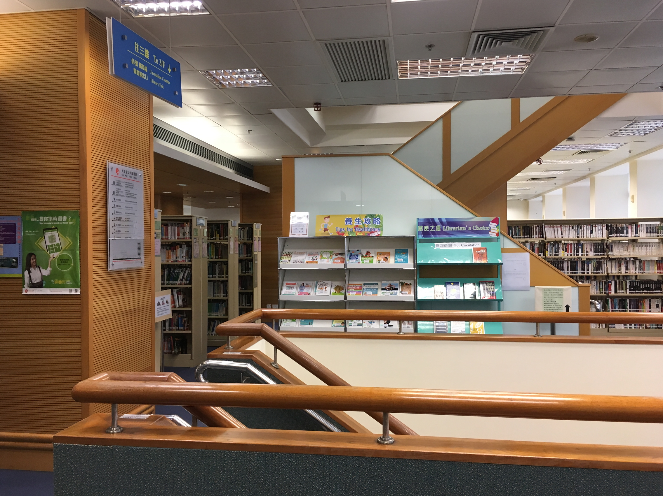 City Hall Public Library Level 4